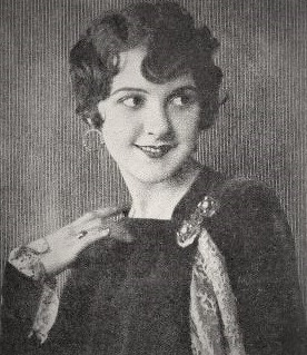 Sally Phipps